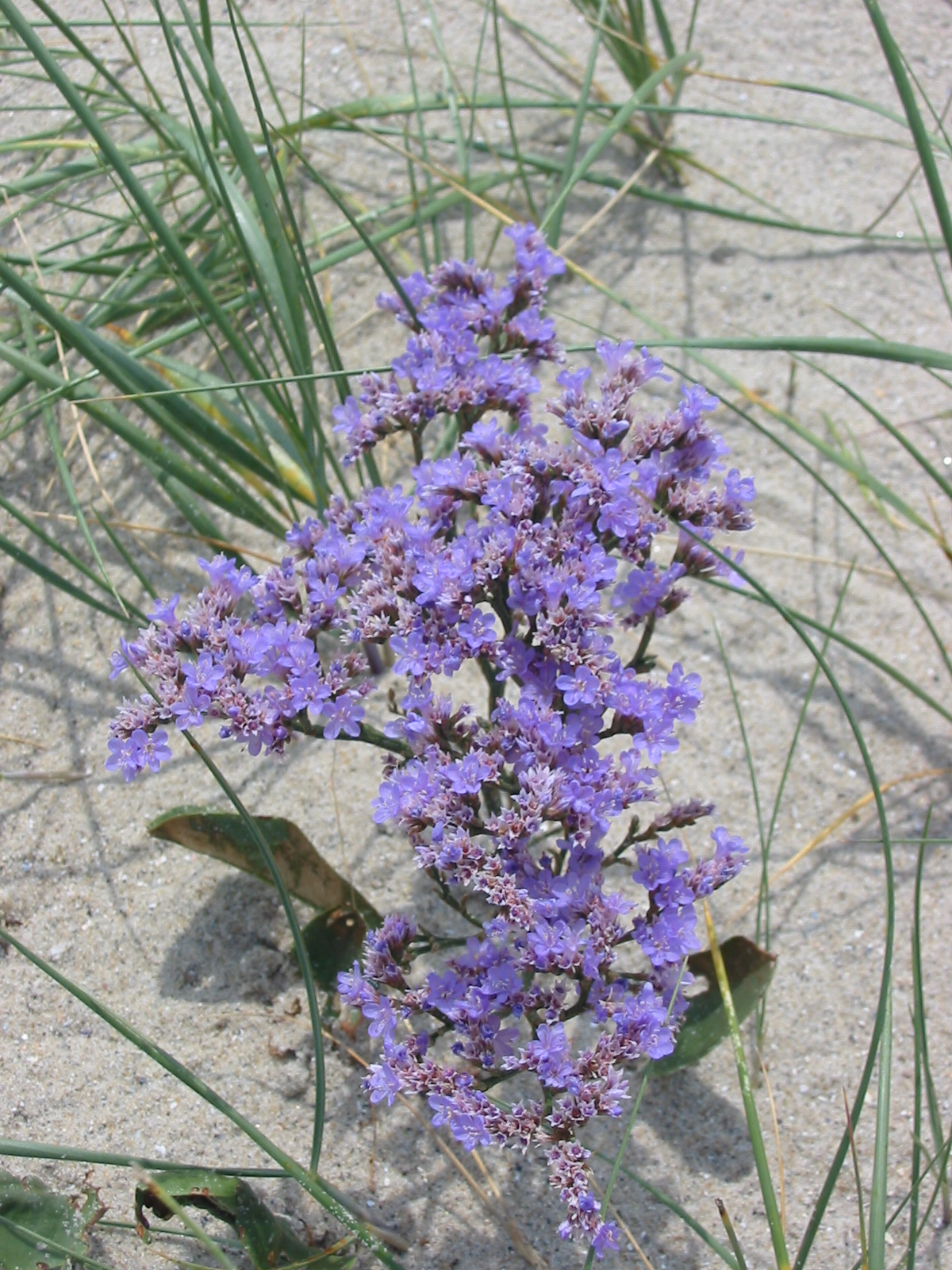 Sea lavender (Limonium vulgare), Picture taken by User:Donarreiskoffer in the Zwin, August 2004